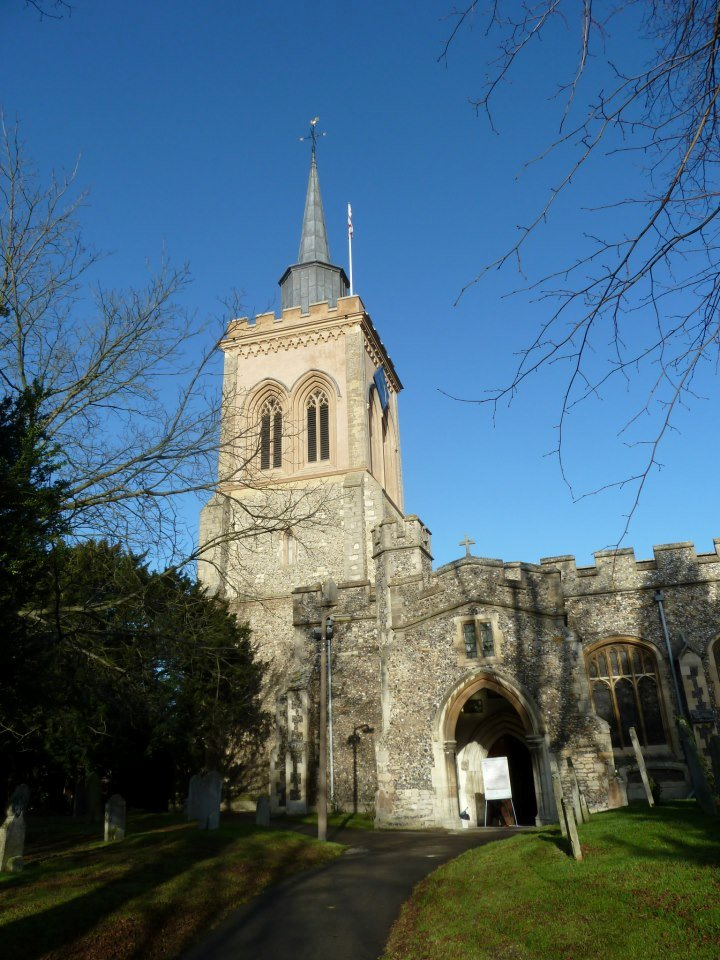 The exterior of St. Mary the Virgin in Baldock